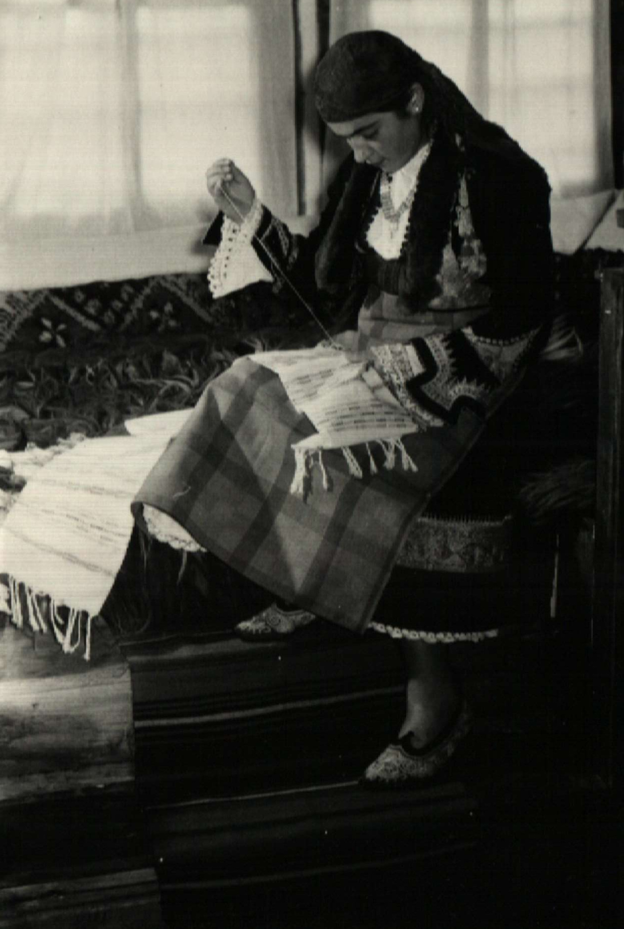 Handicraft of Bulgaria. Woman in national costumes from the Rhodopes, Bulgaria.